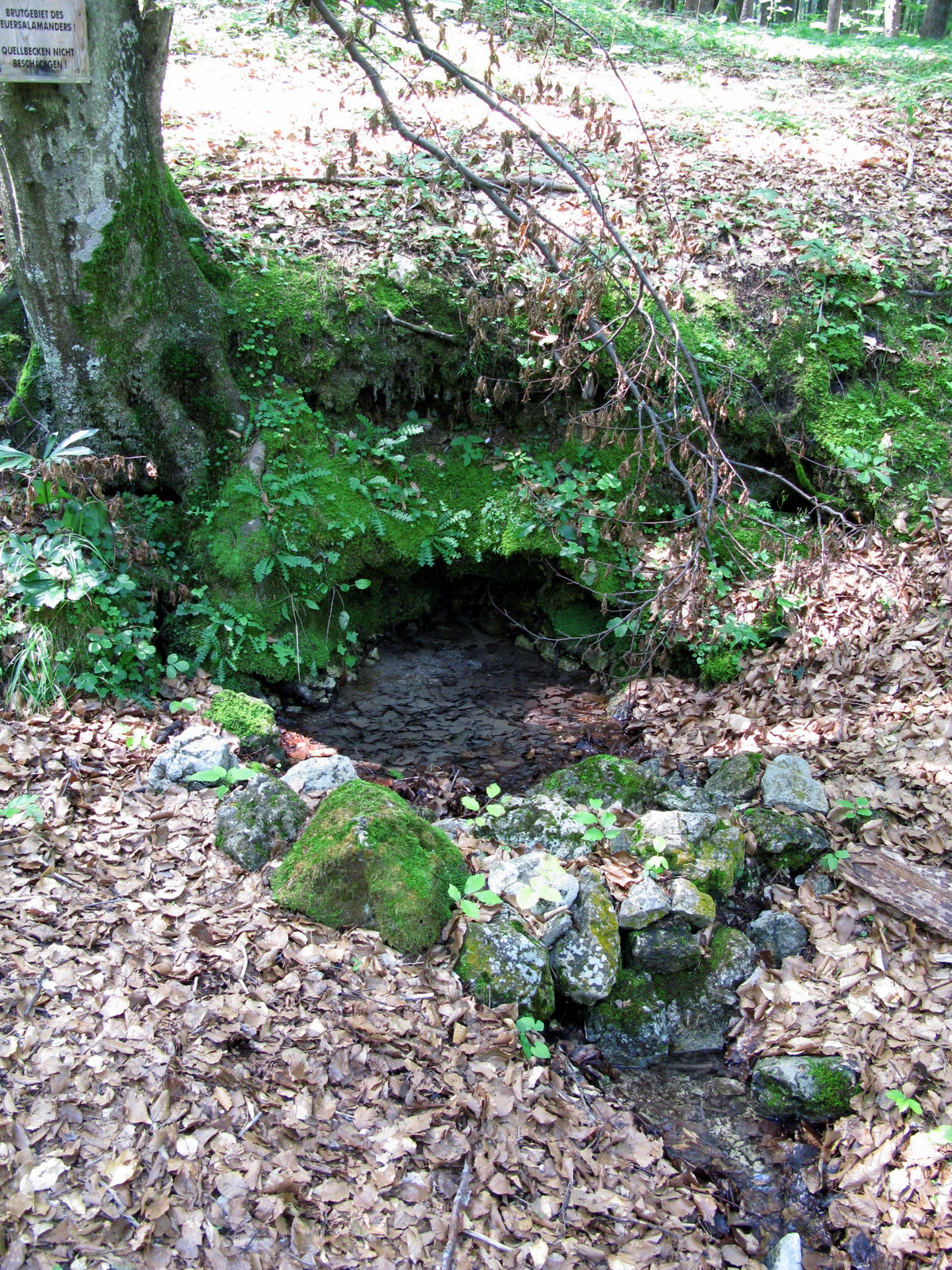 Spring near Ferlach / Carinthia / Austria / European Union. The spring is a hatchery of the Fire Salamander.